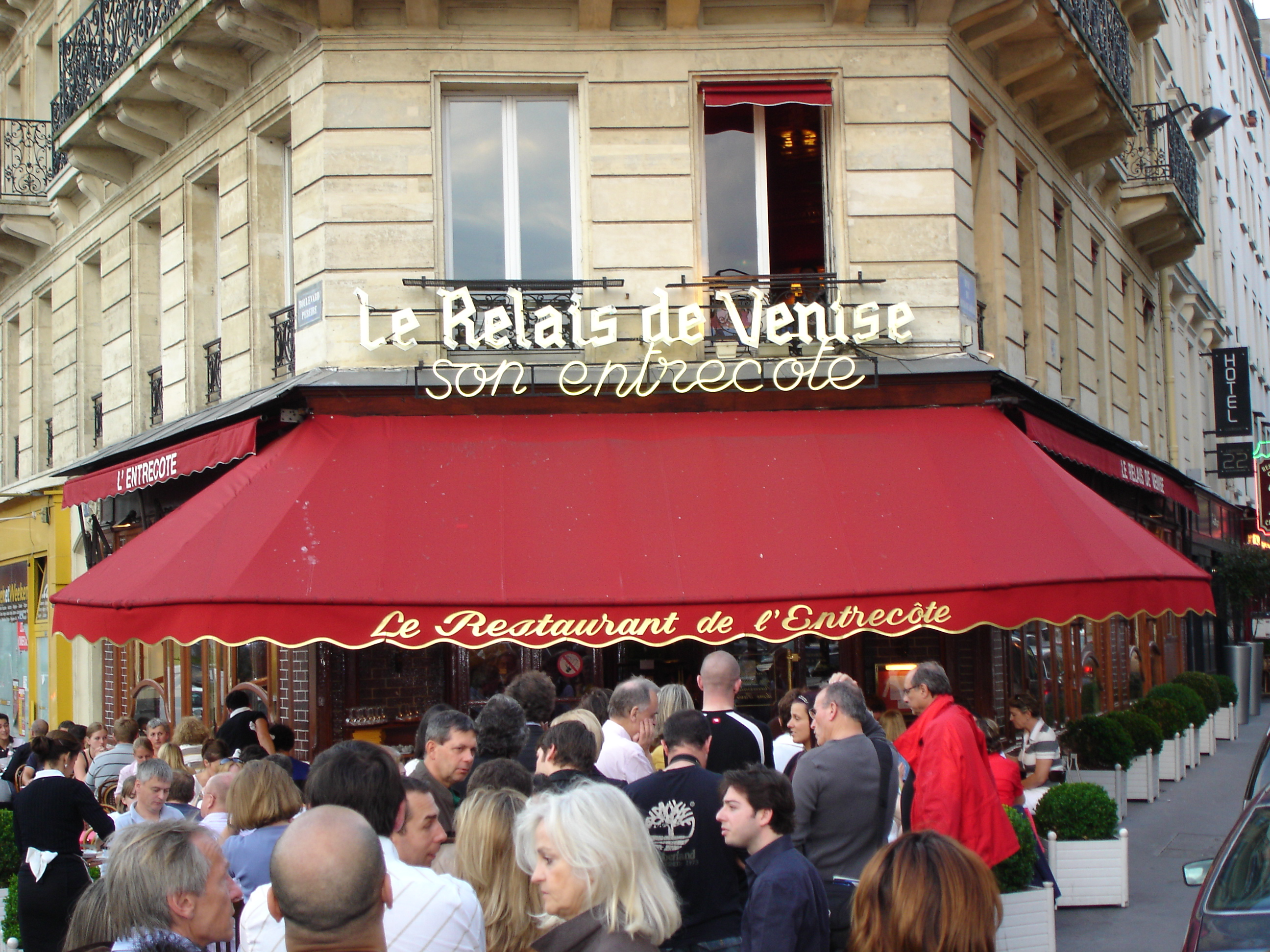 The original location of Le Relais de Venise - L'Entrecôte at Porte Maillot (Paris XVIIe)